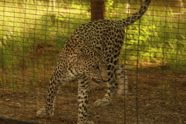 Leopard at Al Ain Zoo